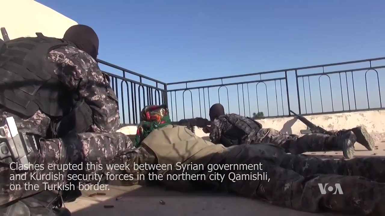 Asayish forces in Qamishli during the w: Qamishli clashes (April 2016).